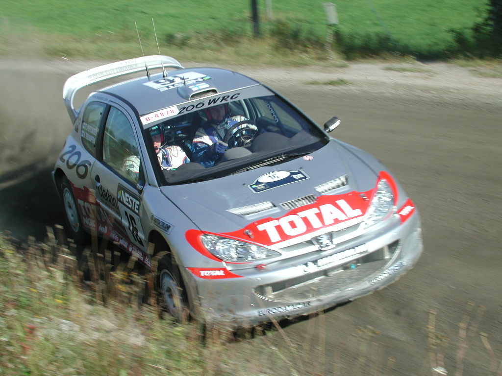 Harri Rovanperä at the 2001 Rally Finland, in August 2001.